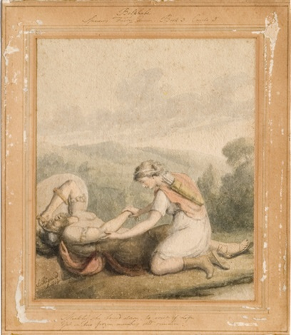 Belphoebe and Timias